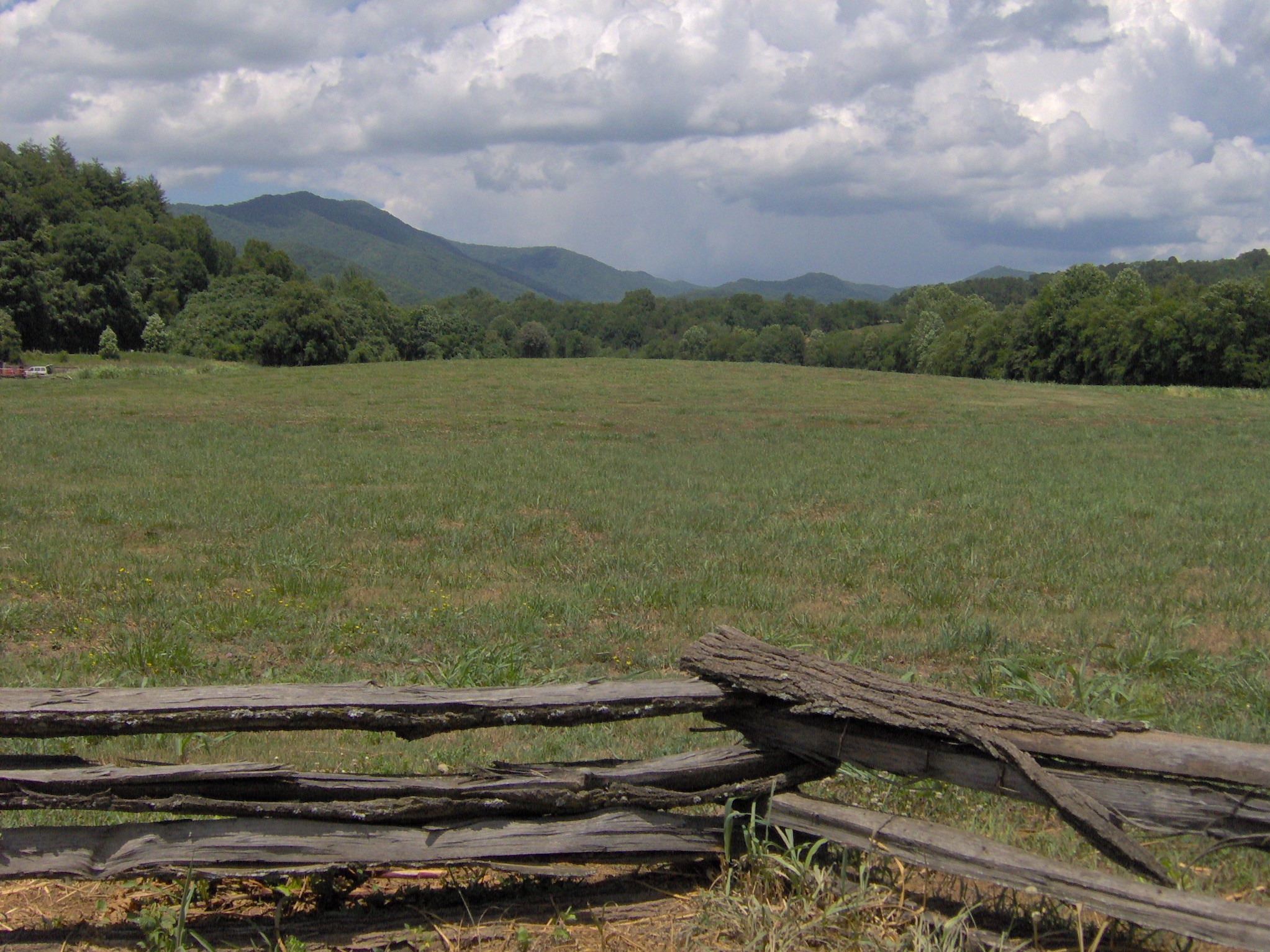 The Kituhwa Mound at Ferguson Field in Swain County, North Carolina, in the southeastern United States. According to Cherokee oral tradition, Kituhwa was their oldest village. The ancient Cherokee called themselves "Ani-Kituhwa'hi." The base of the mound runs roughly across the center of the photograph, and there is a slight difference in the shade of green of the grass on the mound and the grass in the foreground. The mound is located off US-19 northeast of Bryson City. A sign marks the entrance.